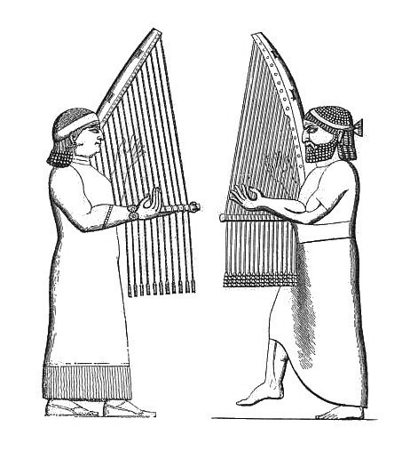 Assyrian vertical angular harp from Koyunjik